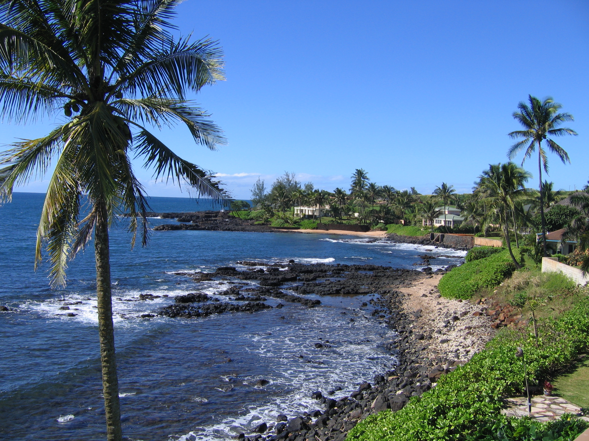 Jeff Manosh, Canon A95 Auto mode